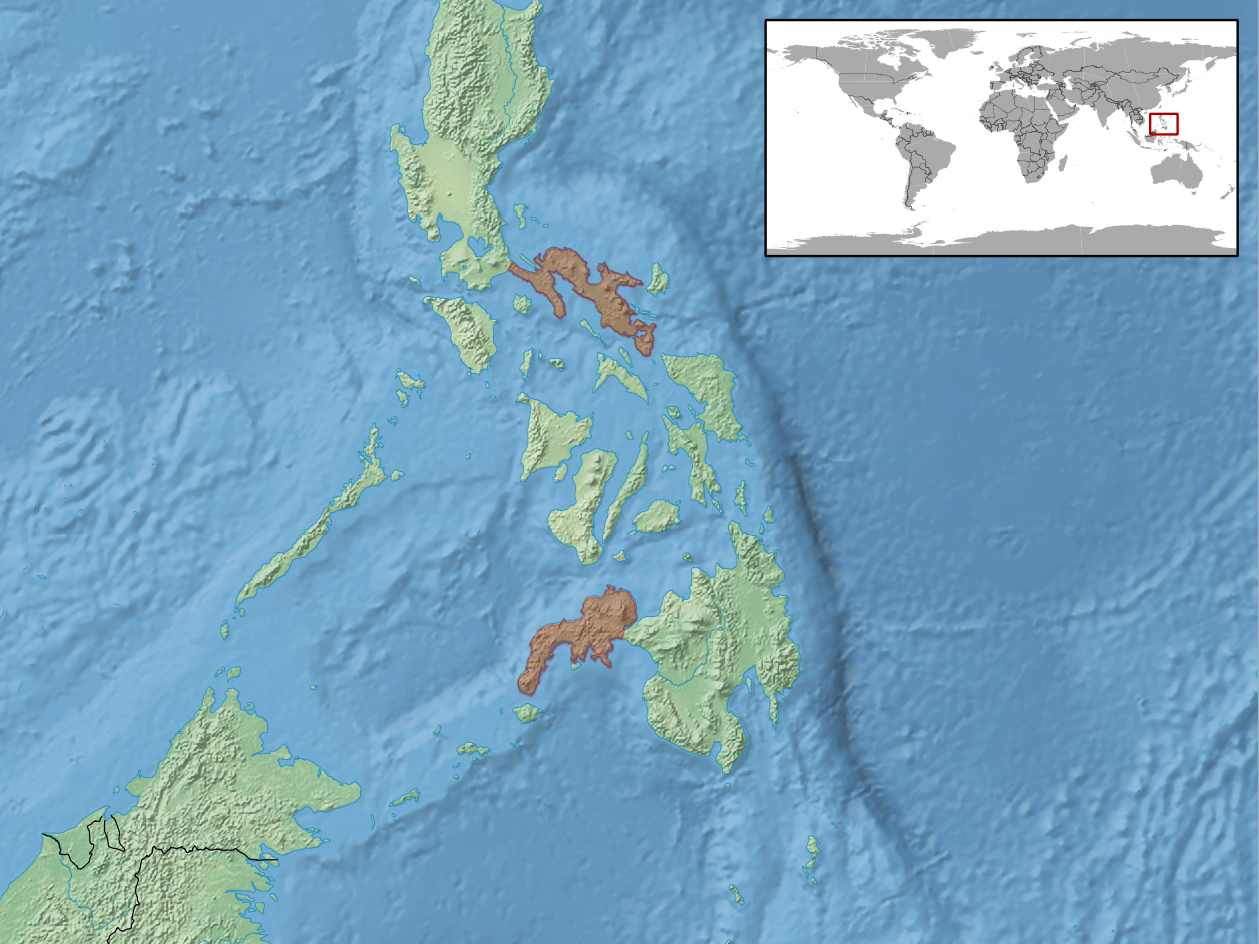 geographic distribution of Lipinia vulcania